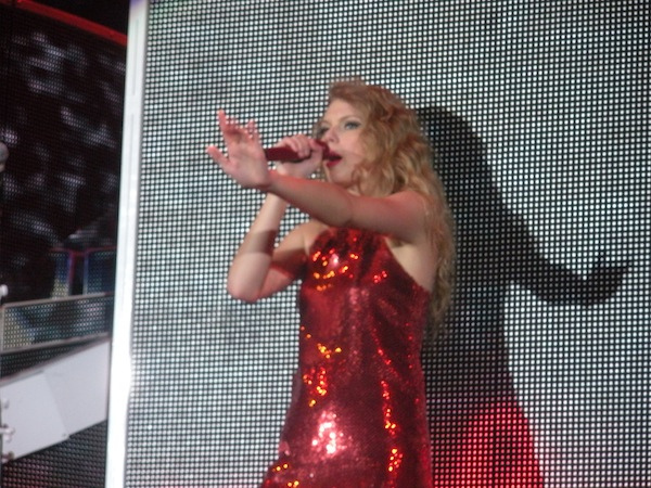 Country singer Taylor Swift performing during her concert in Foxboro, Massachusetts as part of her Fearless Tour in 2010.